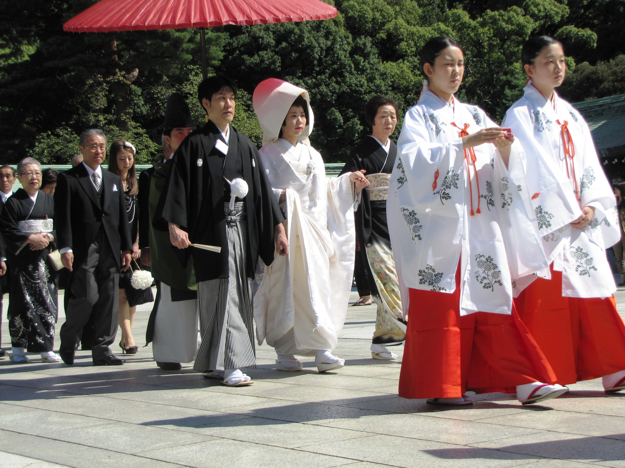 Japanese Wedding